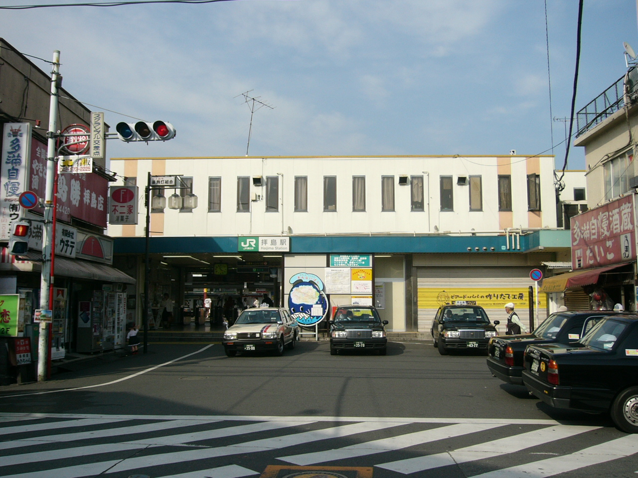 Haijima Station (South Entrance)